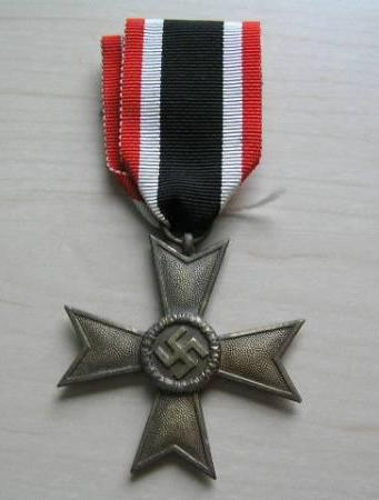 German War Merit Order